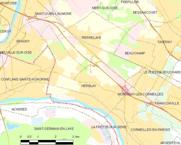 Map of French municipality Herblay